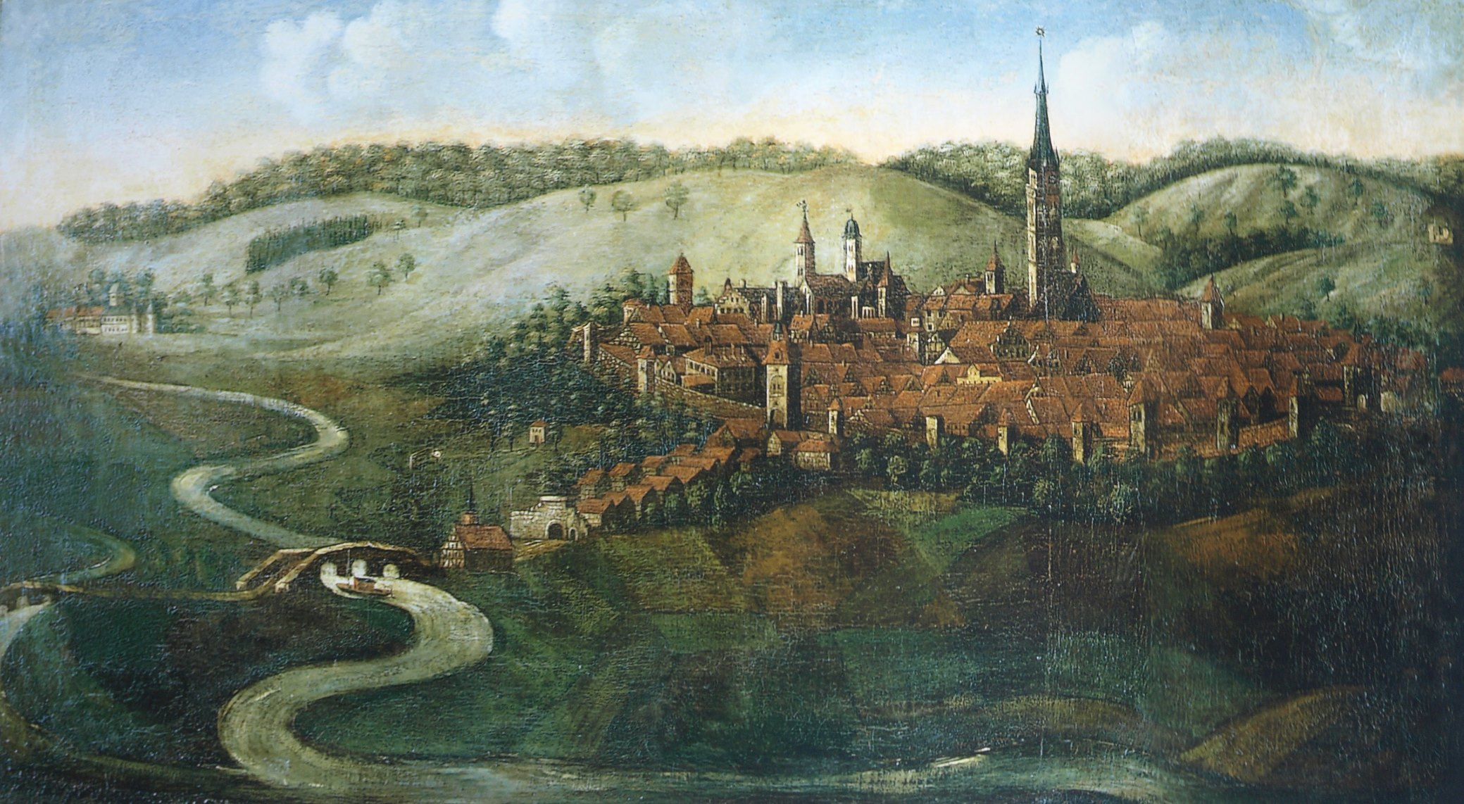 oil-painting of Hersfeld, painted from Conrad Schnuphaseim in 1696